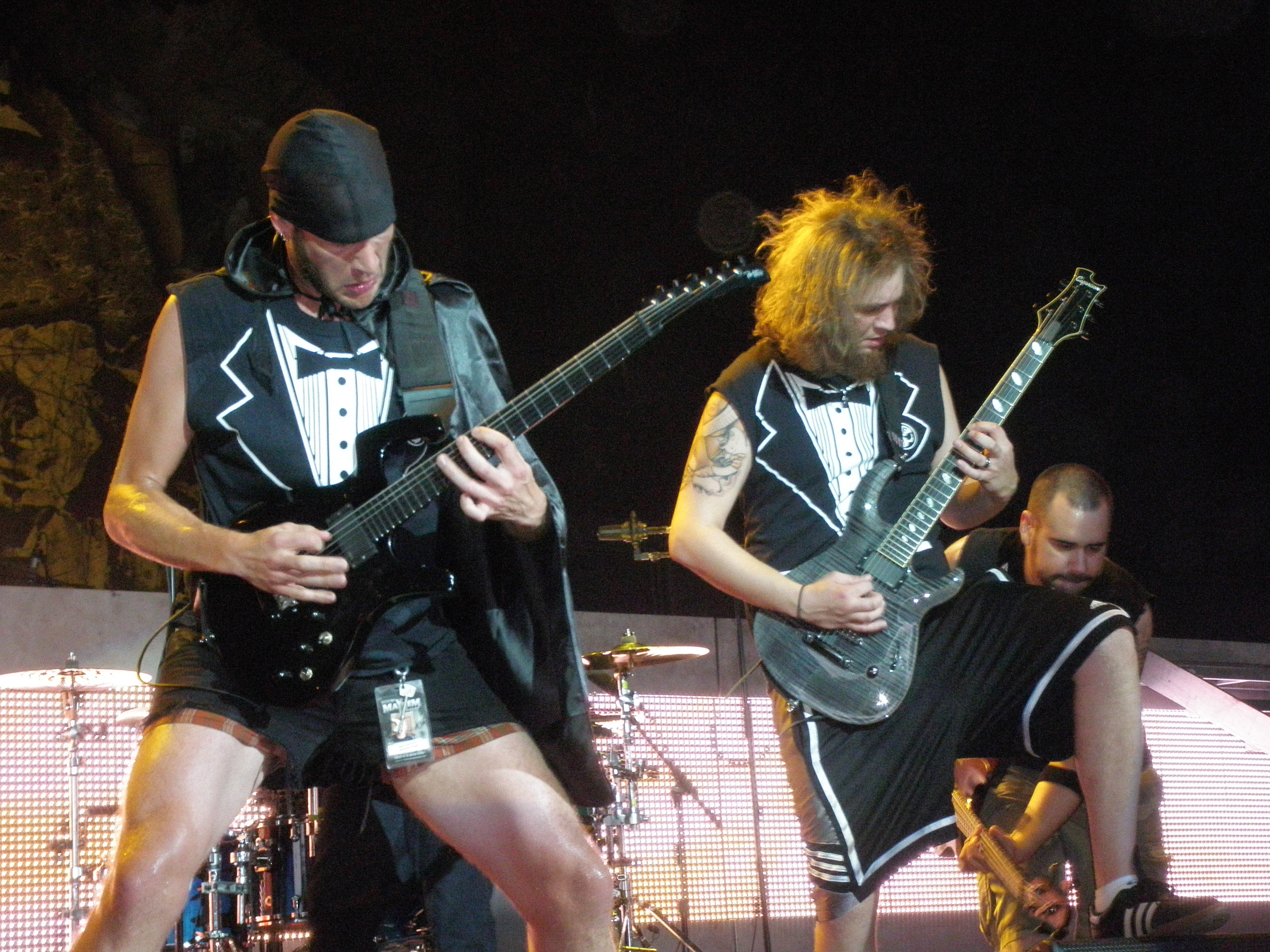 Killswitch Engage's Adam Dutkiewicz & Joel Stroetzel live at Mayhem Fest, 2009.